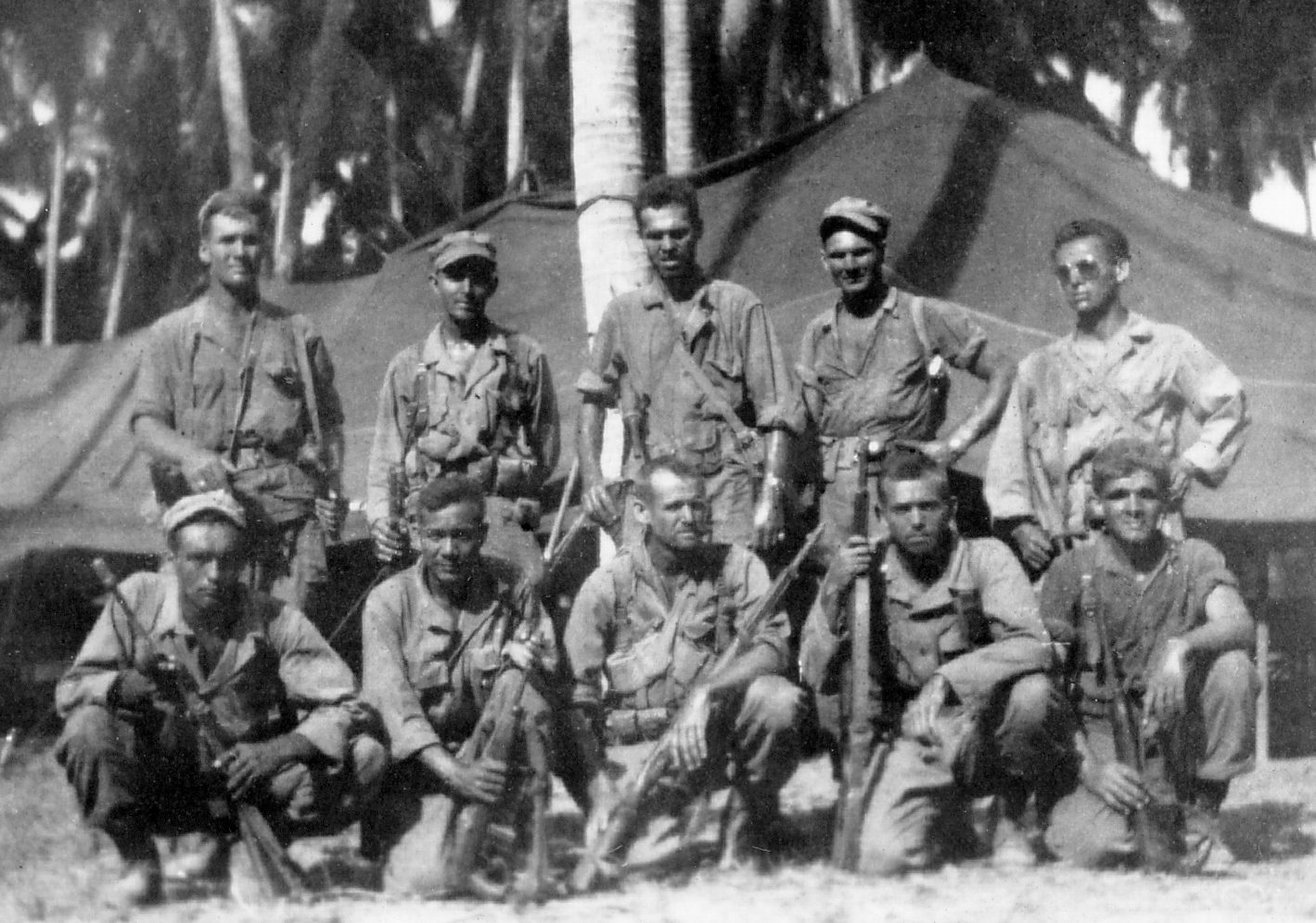 The Alamo Scouts after the Raid at Cabanautan. Top row left to right: Gil Cox, Wilbert Wismer, Harold Hard, Andy Smith, and Francis Laquier. Bottom row left to right: Galen Kittleson, Rufo Vaquilar, Bill Nellist, Tom Rounsaville, and Frank Fox.